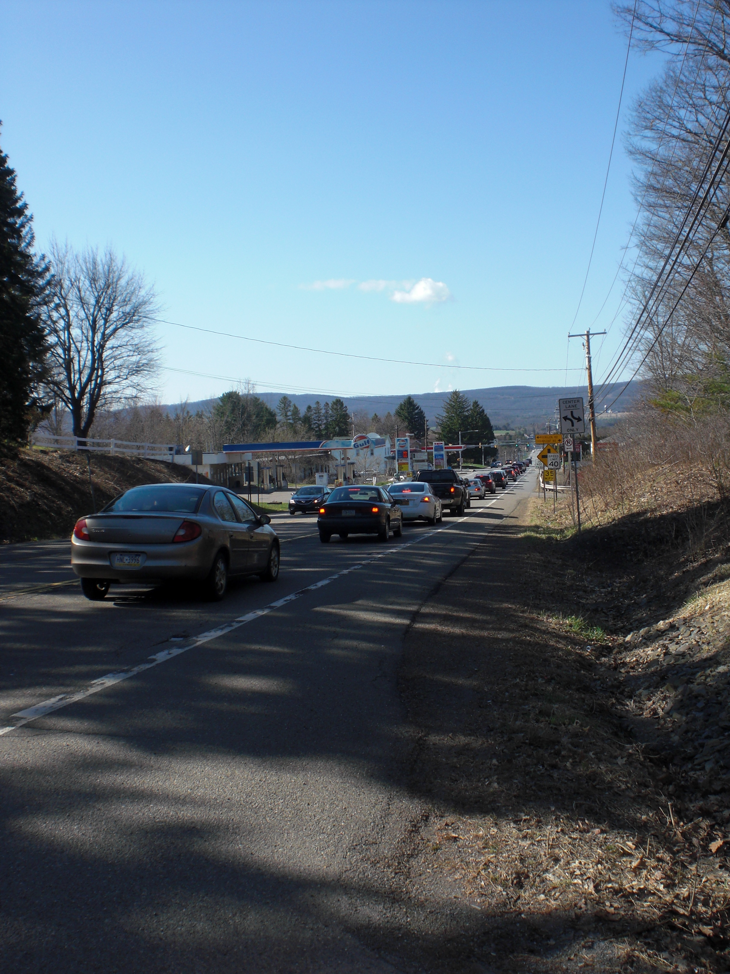 Pennsylvania Route 93 in Conyngham during the rush hour